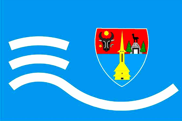 Flag of Maramureș County, Romania.